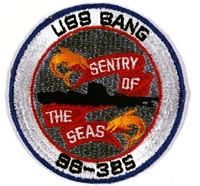 Insignia of the USS Bang, Public domain photo from history.navy.mil